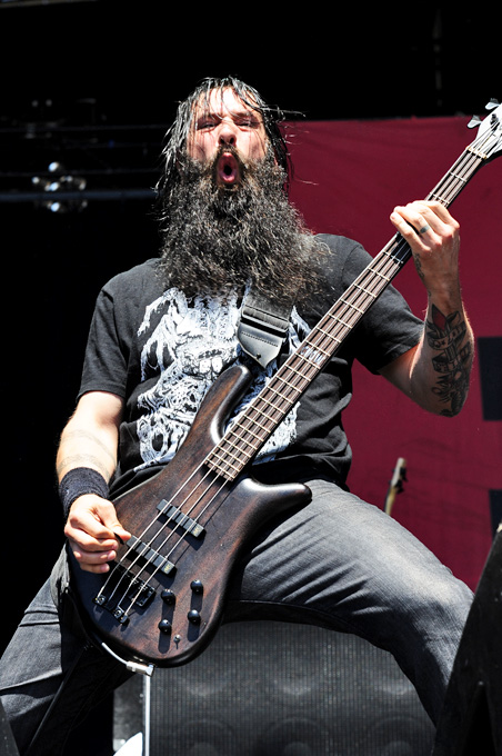 Cavalera Conspiracy performing at Big Day Out Festival 2012.